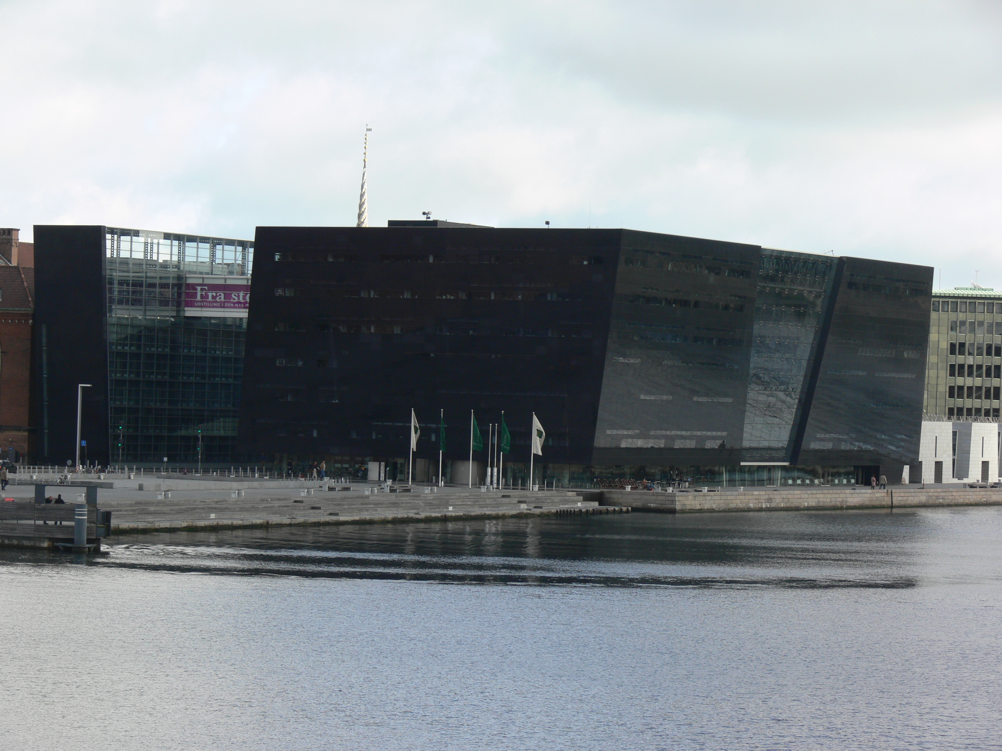 Danish Royal Library